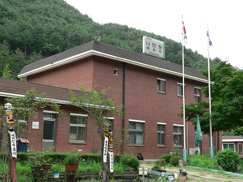 KORAIL Nahanjeong Station